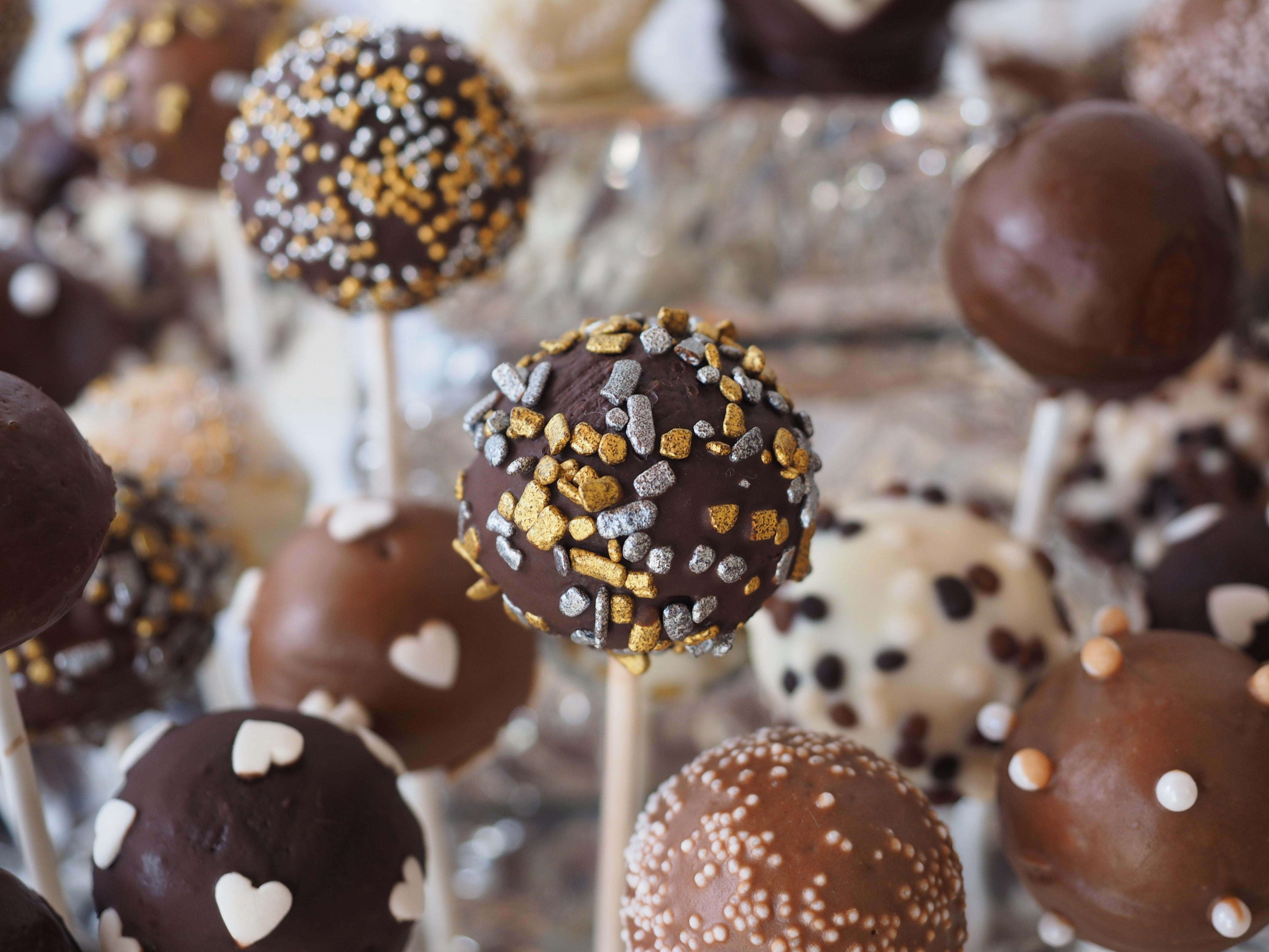 Chocolate cake pop pastries coated with sprinkles.